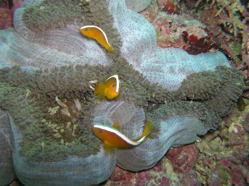 Stichodactyla mertensii with Amphiprion sandaracinos, Philippines Panglao December 2005